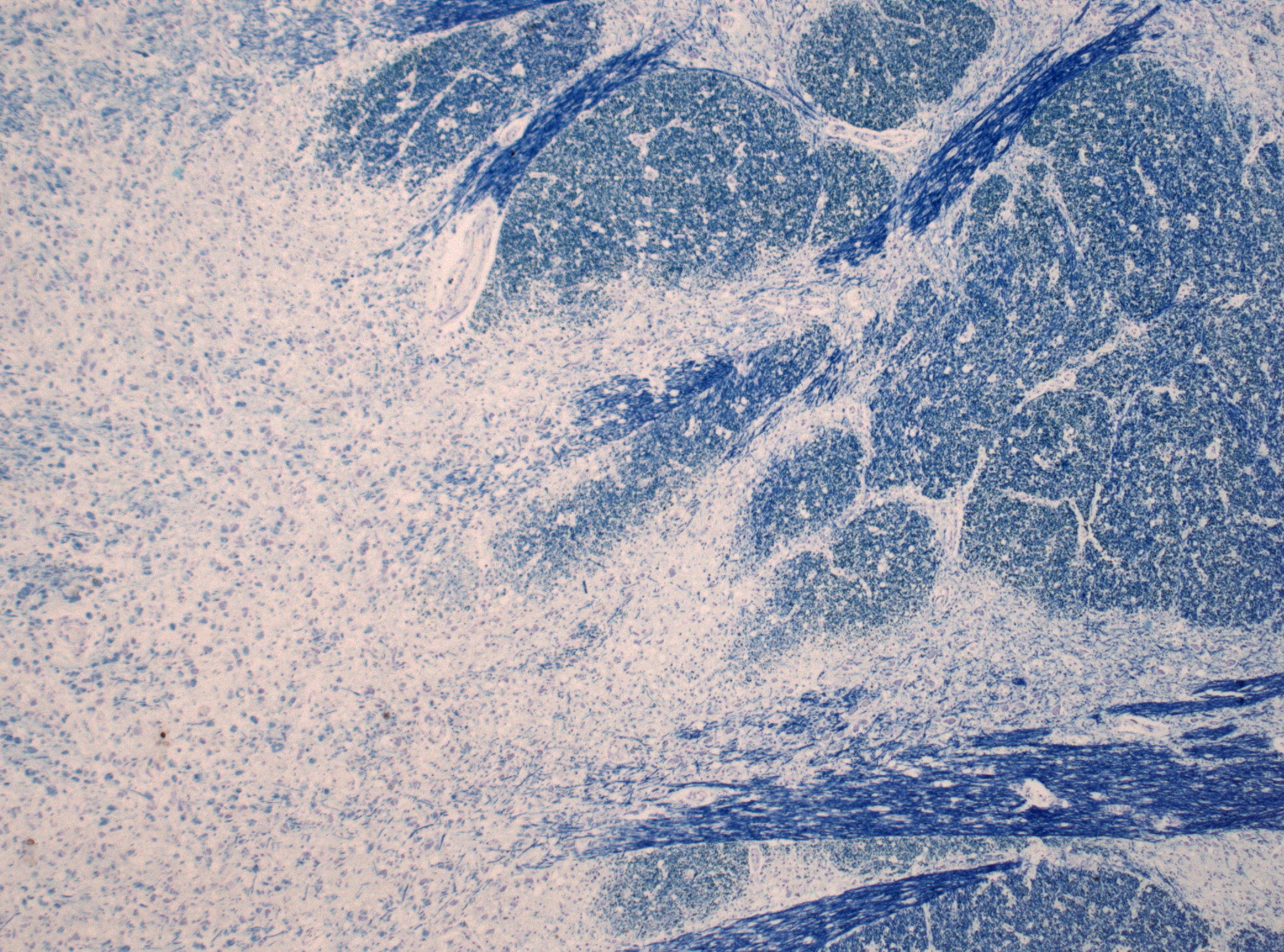 Loss of myelinated fibers at the basis pontis in the brainstem (Luxol-Fast blue stain)